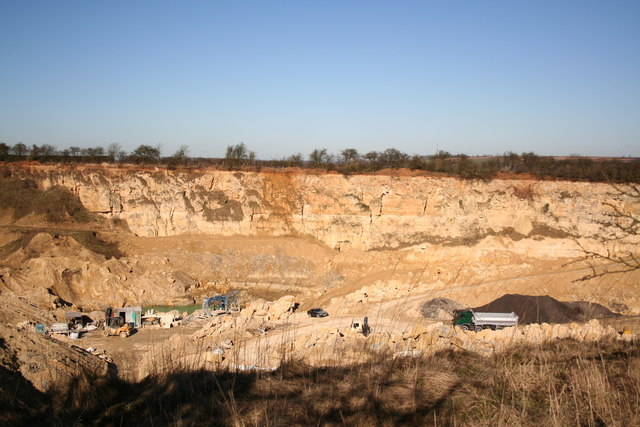 Ancaster Stone Quarry. One of the famous limestone quarries for Ancaster stone